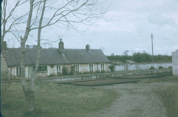 Killygordon Railway Station, Co Donegal. This station was one of several on the Finn Valley Railway. Part of County Donegal Railway System. The line was opened in 1863 and closed in 1959. The photograph was taken in 1961.